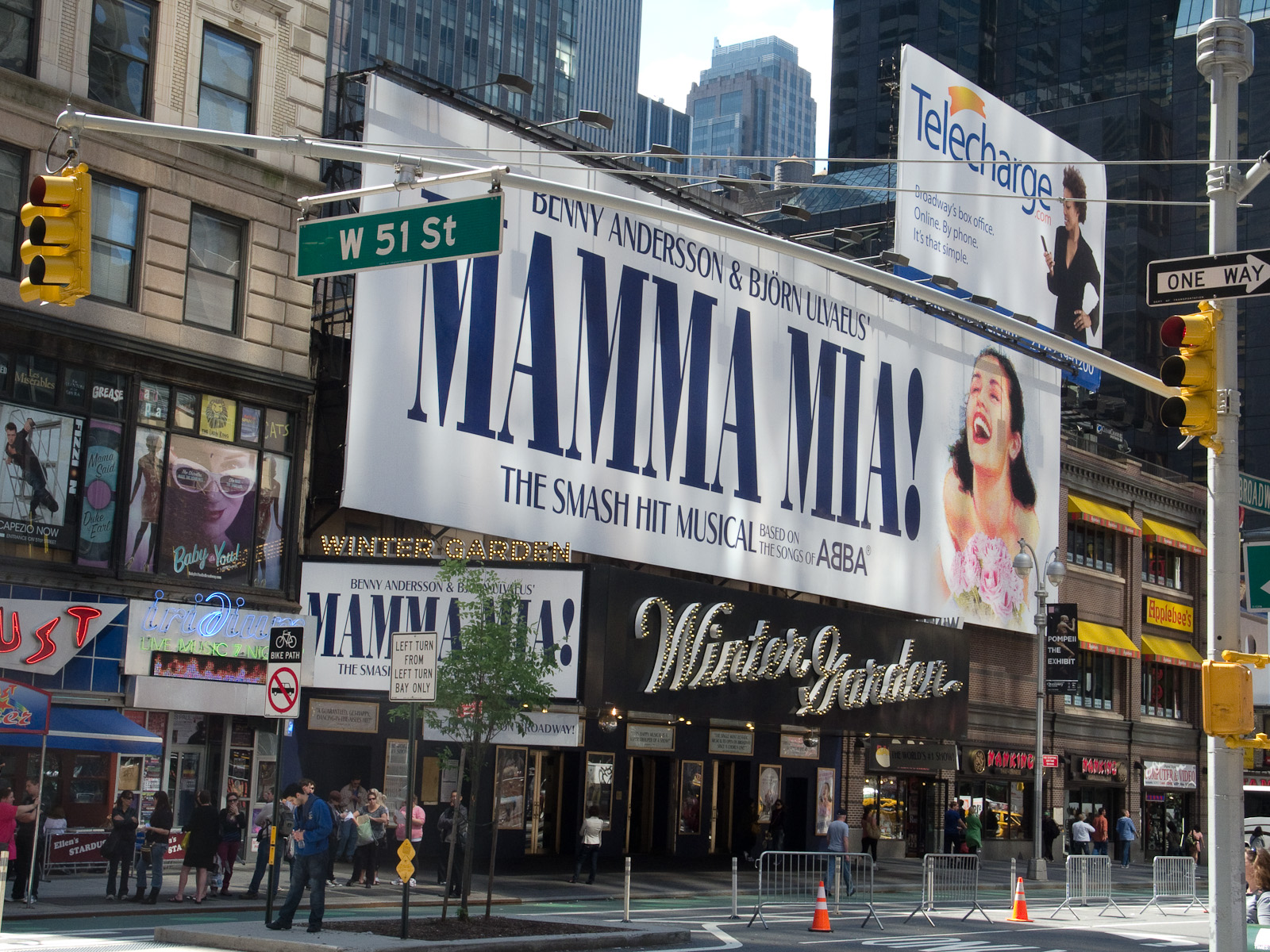 Front of New York's Winter Garden Theatre